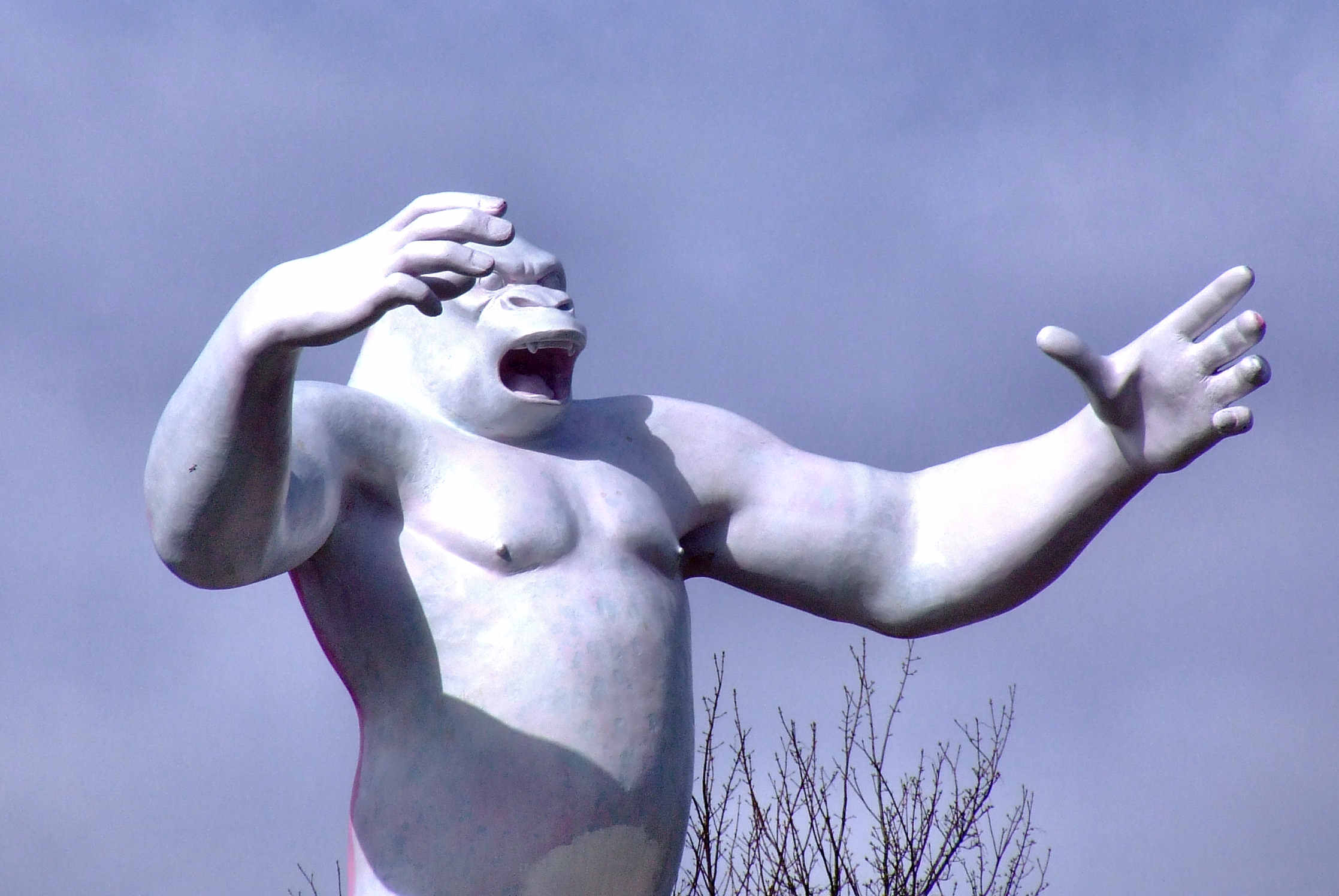 King Kong statue by Nicholas Monro, while at a local market at Penrith.